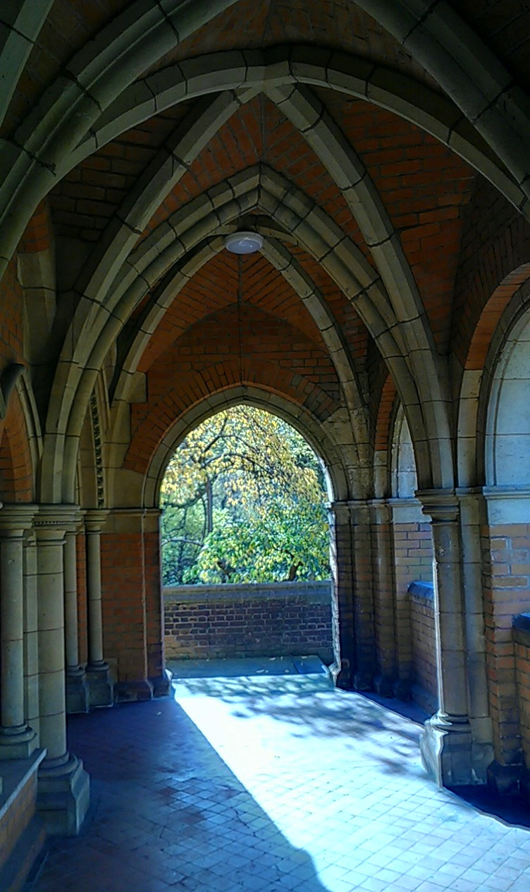 Cloisters at St John the Evangelist, Upper Norwood in London Borough of Croydon.